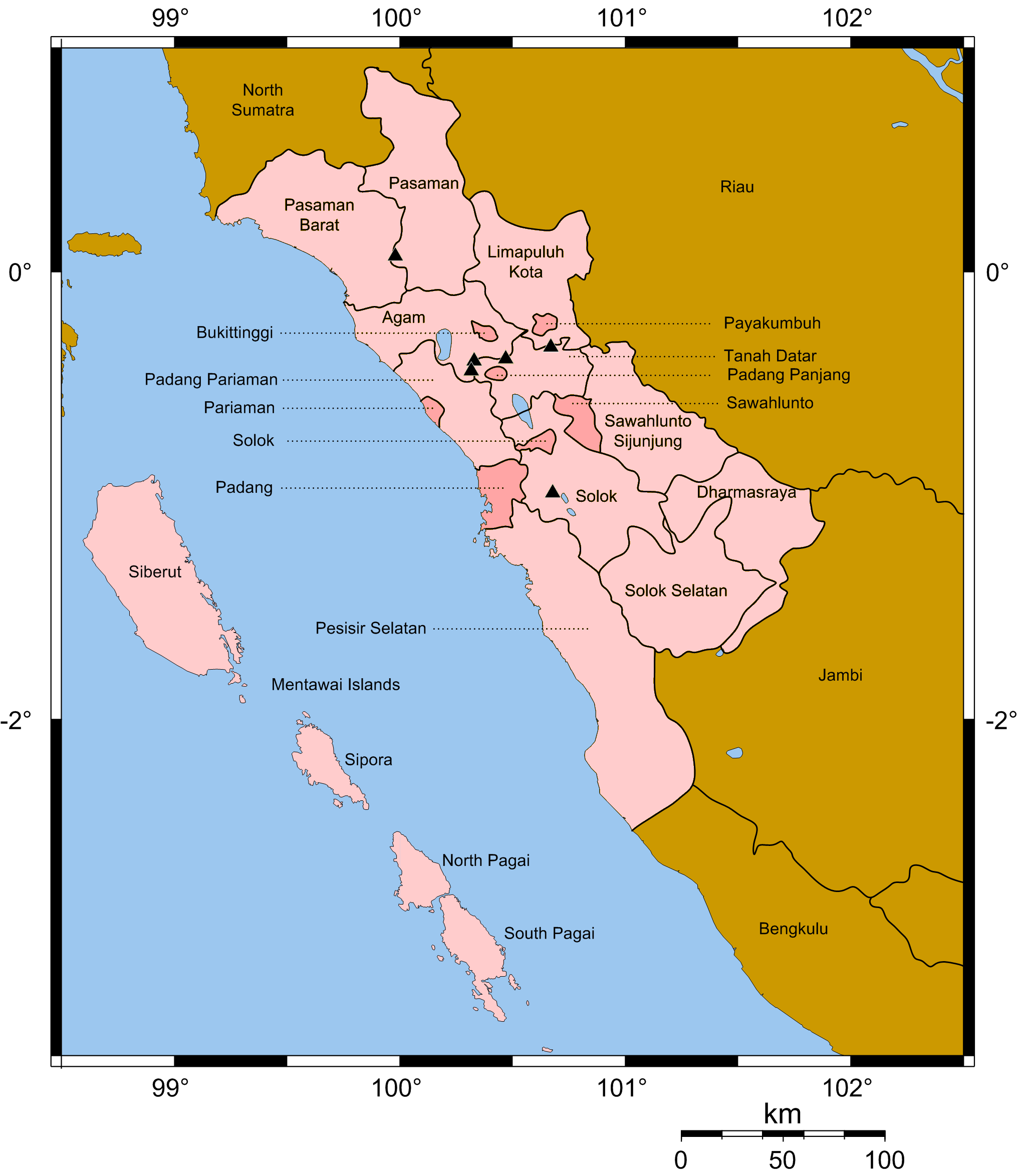 Map of West Sumatra drawn by MichaelJLowe, based upon public domain map from [1].